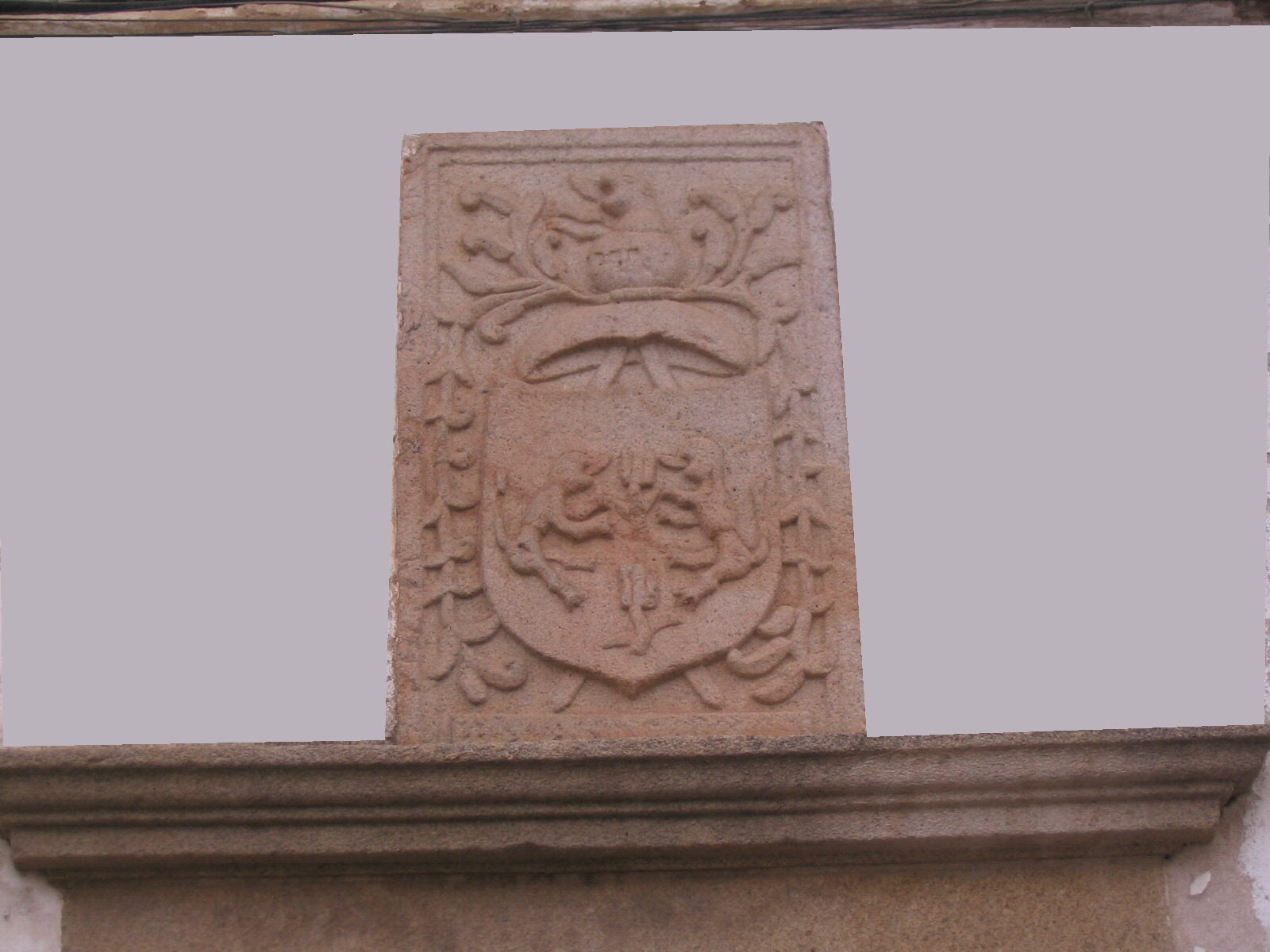 Coat of Arms of Cardoso